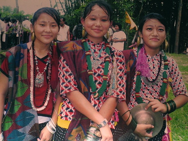 Rai (ethnic group of today's Nepal)